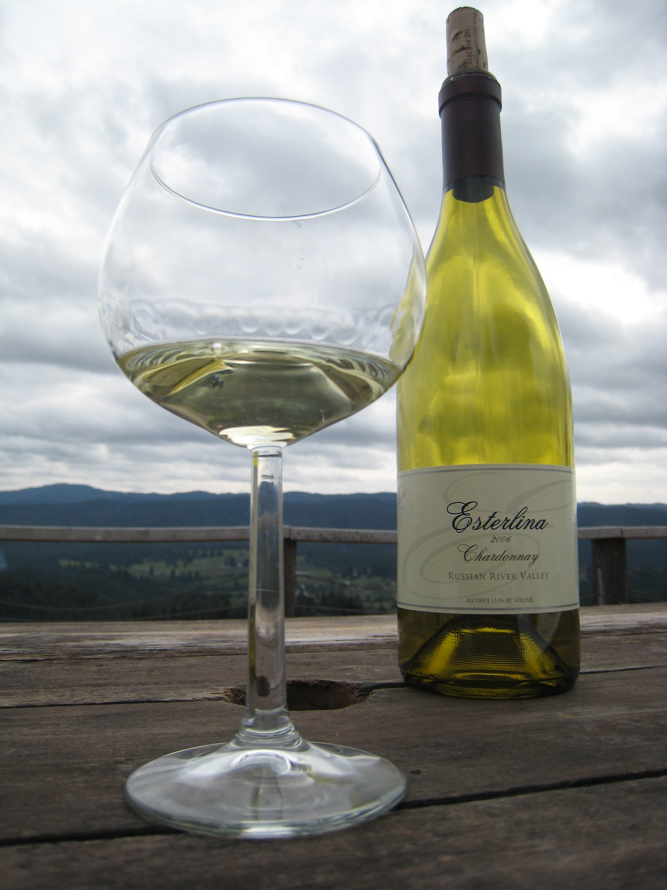 From Esterlina Tasting Room in the California wine region of Anderson Valley, Mendocino County.